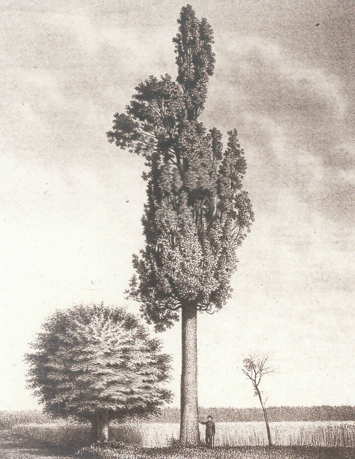 Nice oak at Harreshausen